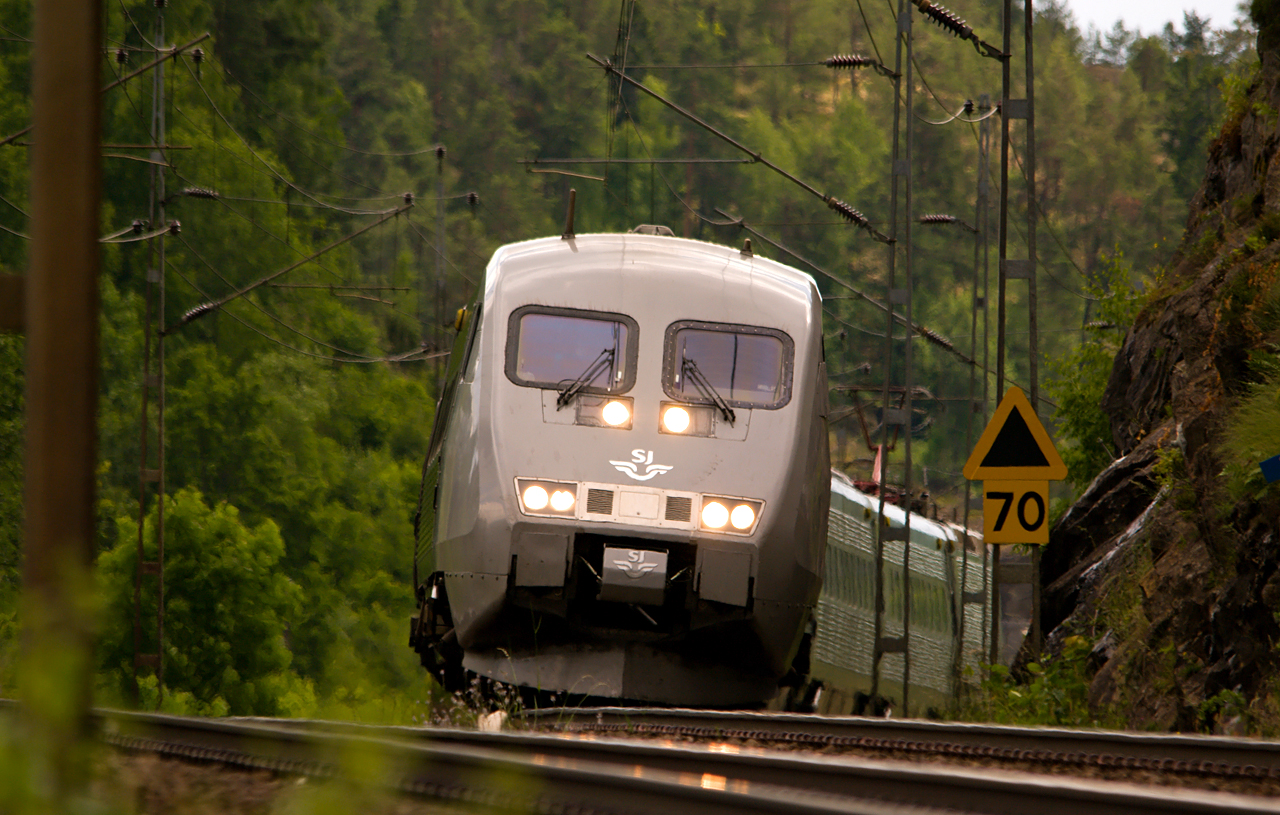 One SJ2000 to Stockholm att Graversfors 2011